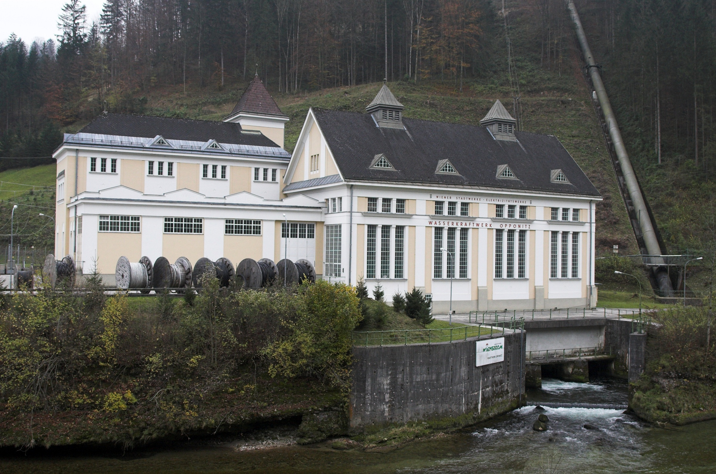 Opponitz hydro power station on Ybbs river in Lower Austria